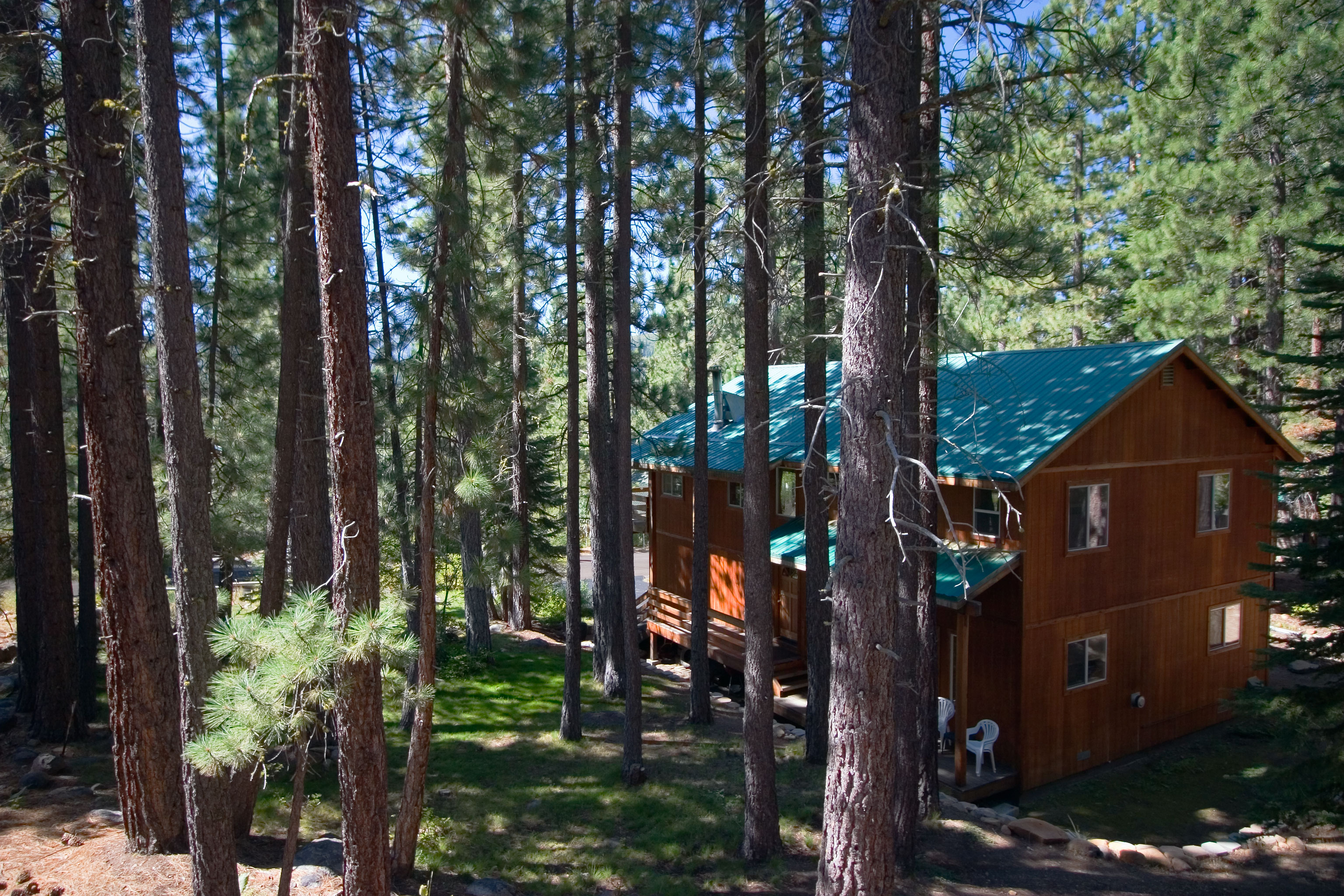 A home in Truckee, California